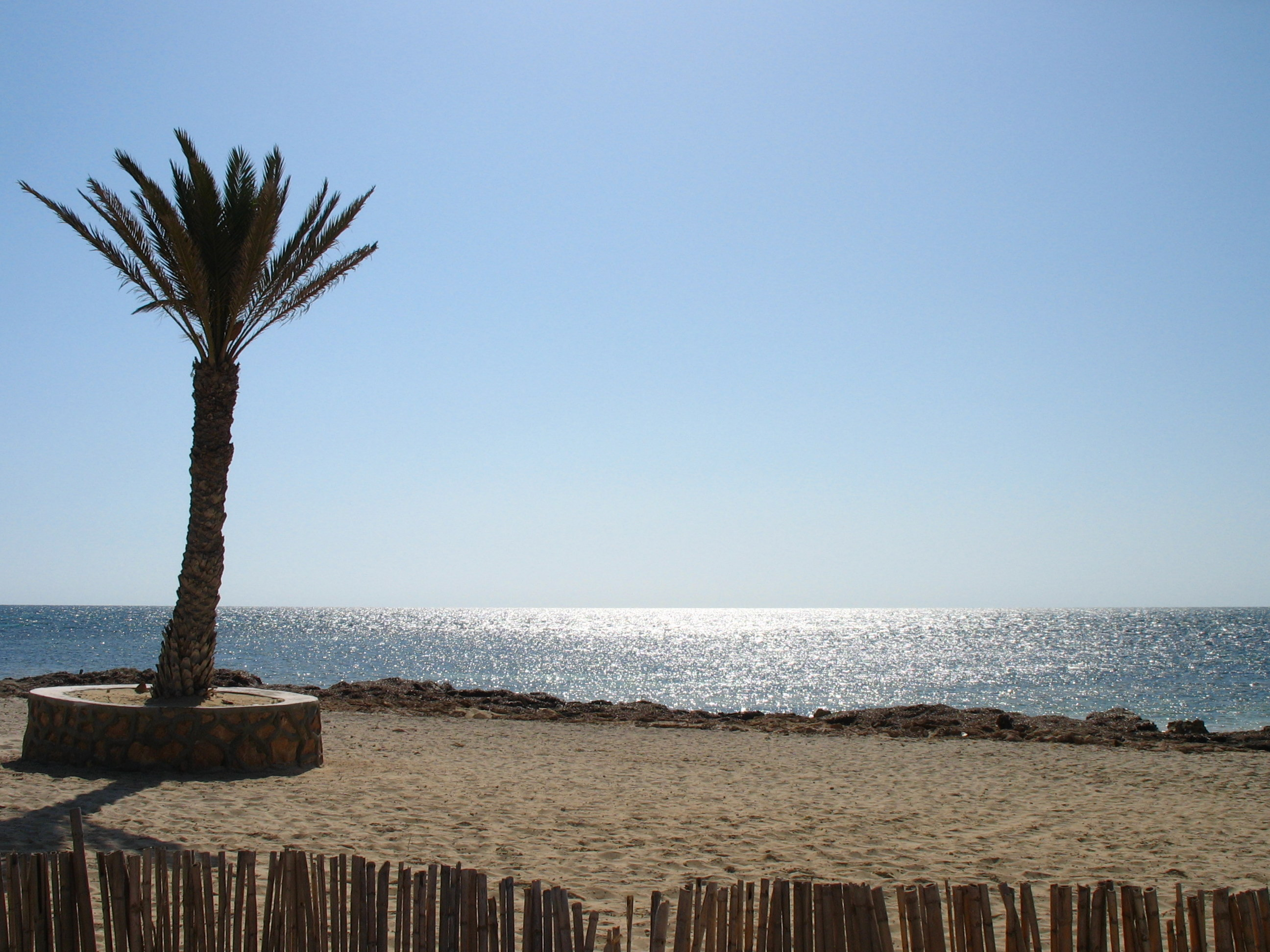 Djerba (Tunisia).